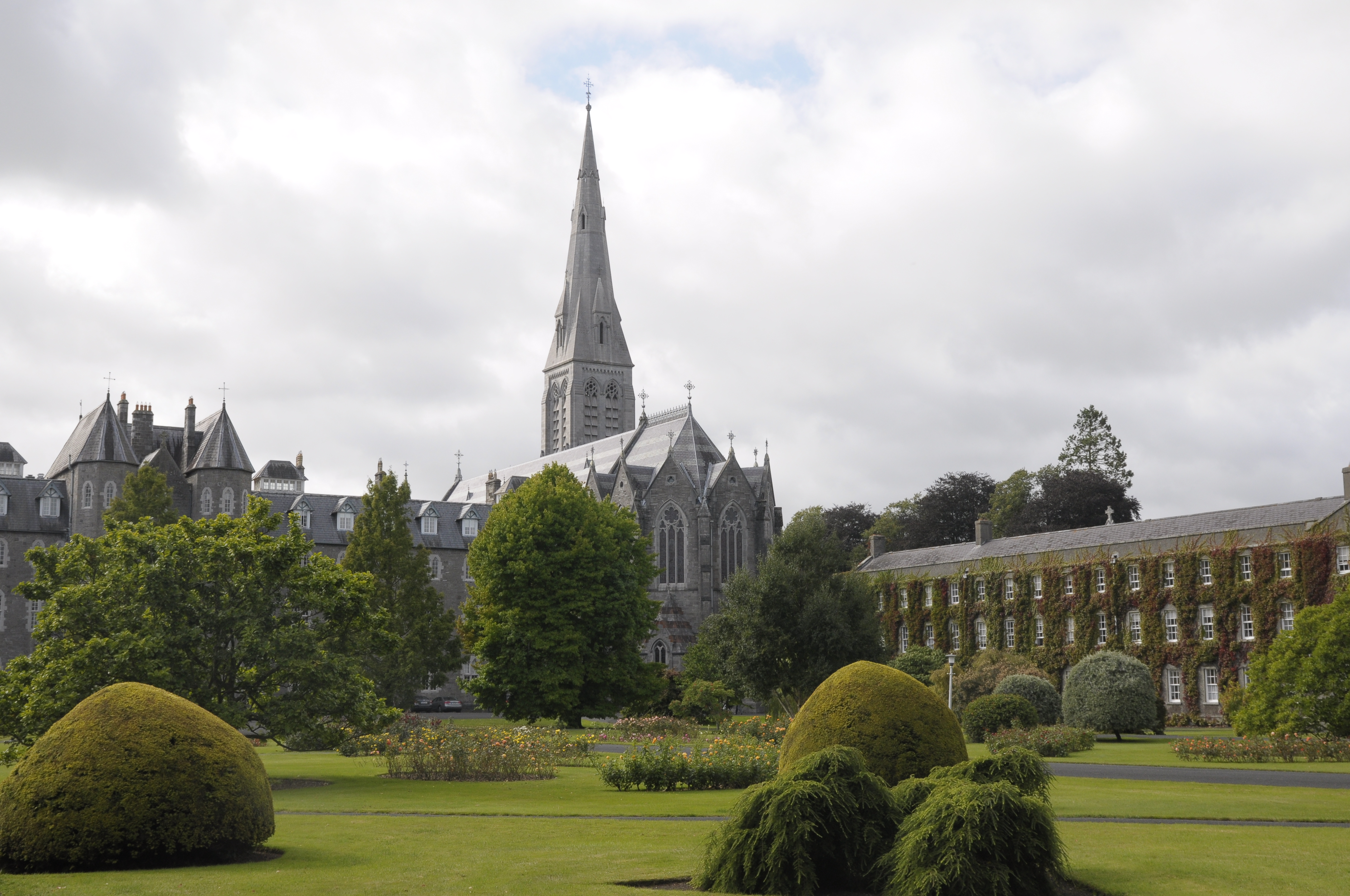 Picture of the south campus of Maynooth University in Maynooth, Kildare, Ireland.